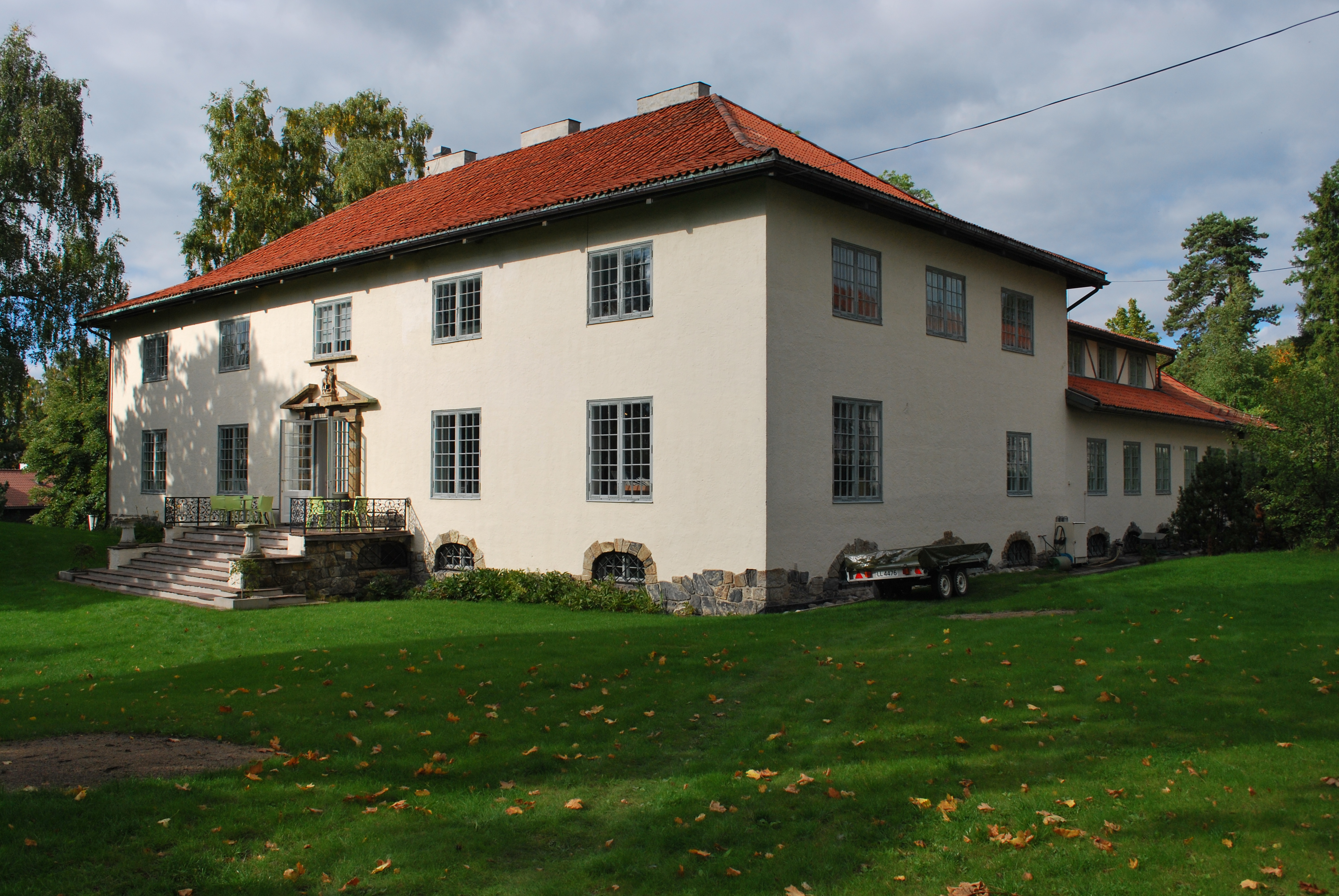 Villa "Elsero", Arnstein Arnebergs vei 3, Skøyen, Oslo, architect Arnstein Arneberg